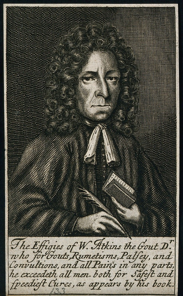 Engraving of Restoration era quack William Atkins, famous for his supposed cure for gout. Printed as a frontispiece his 1694 volume A Discourse Shewing the Nature of the Gout. For more information see: Porter, Roy; Rousseau, George Sebastian (2000). Gout: The Patrician Malady. Yale University Press. p. 257